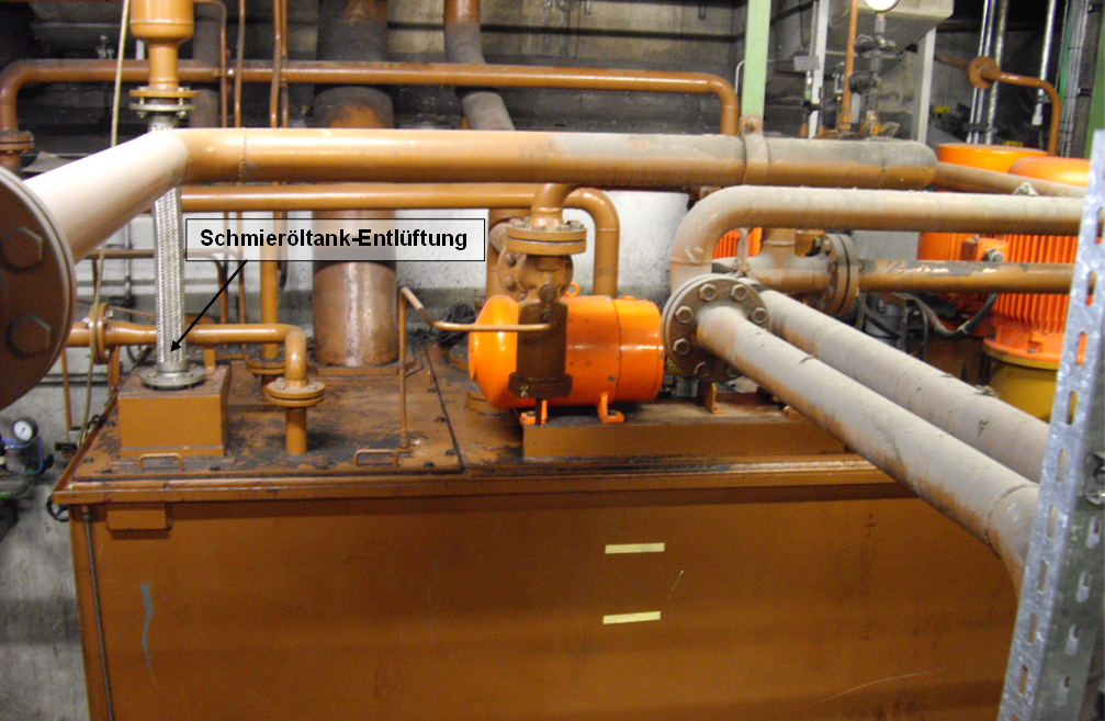 Photo of a central lube oil tank with ventilation for lubrication of turbine shaft bearings.